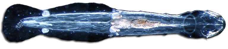 Spadella cephaloptera